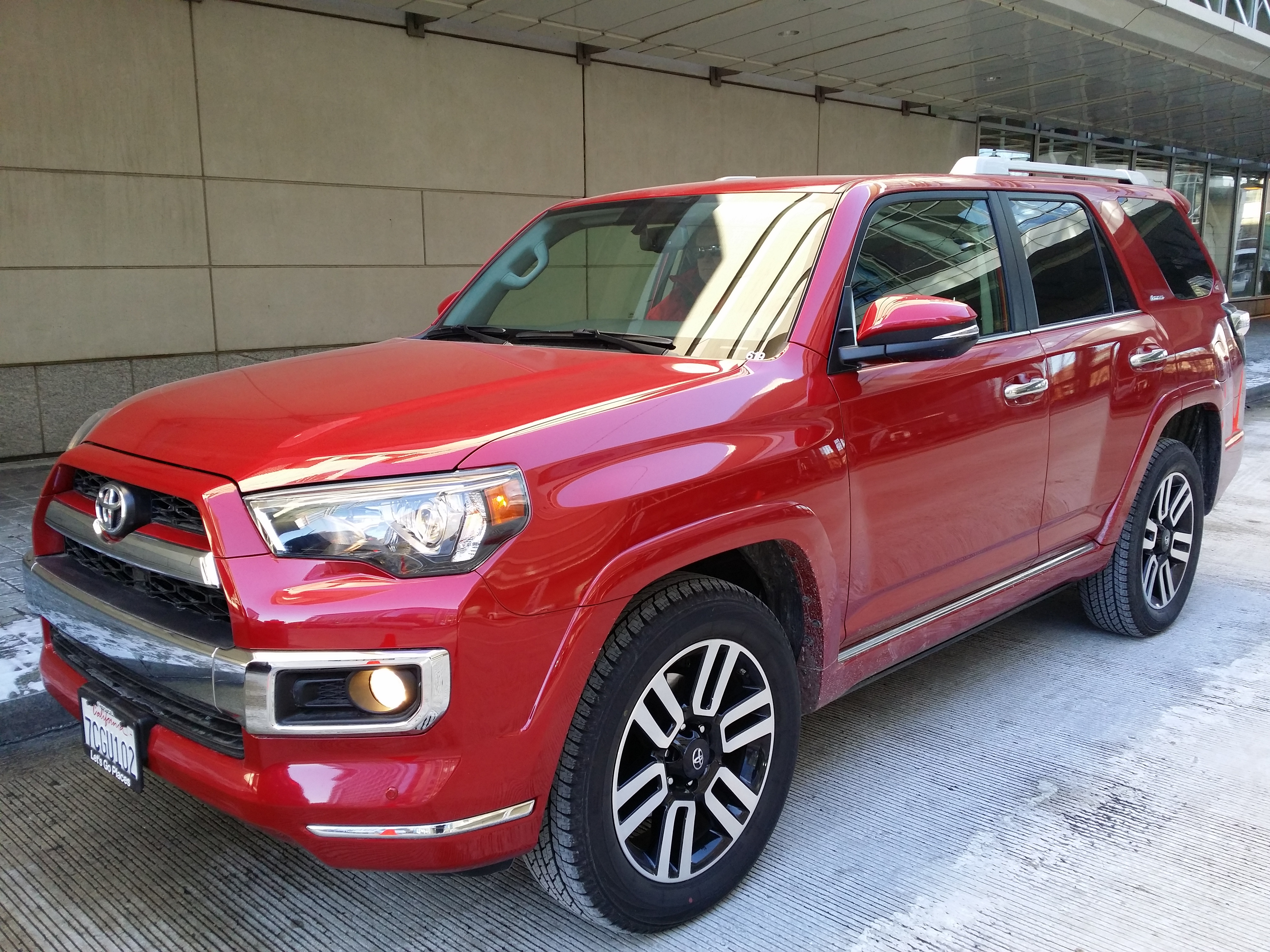 The 2014 Toyota 4Runner Limited.